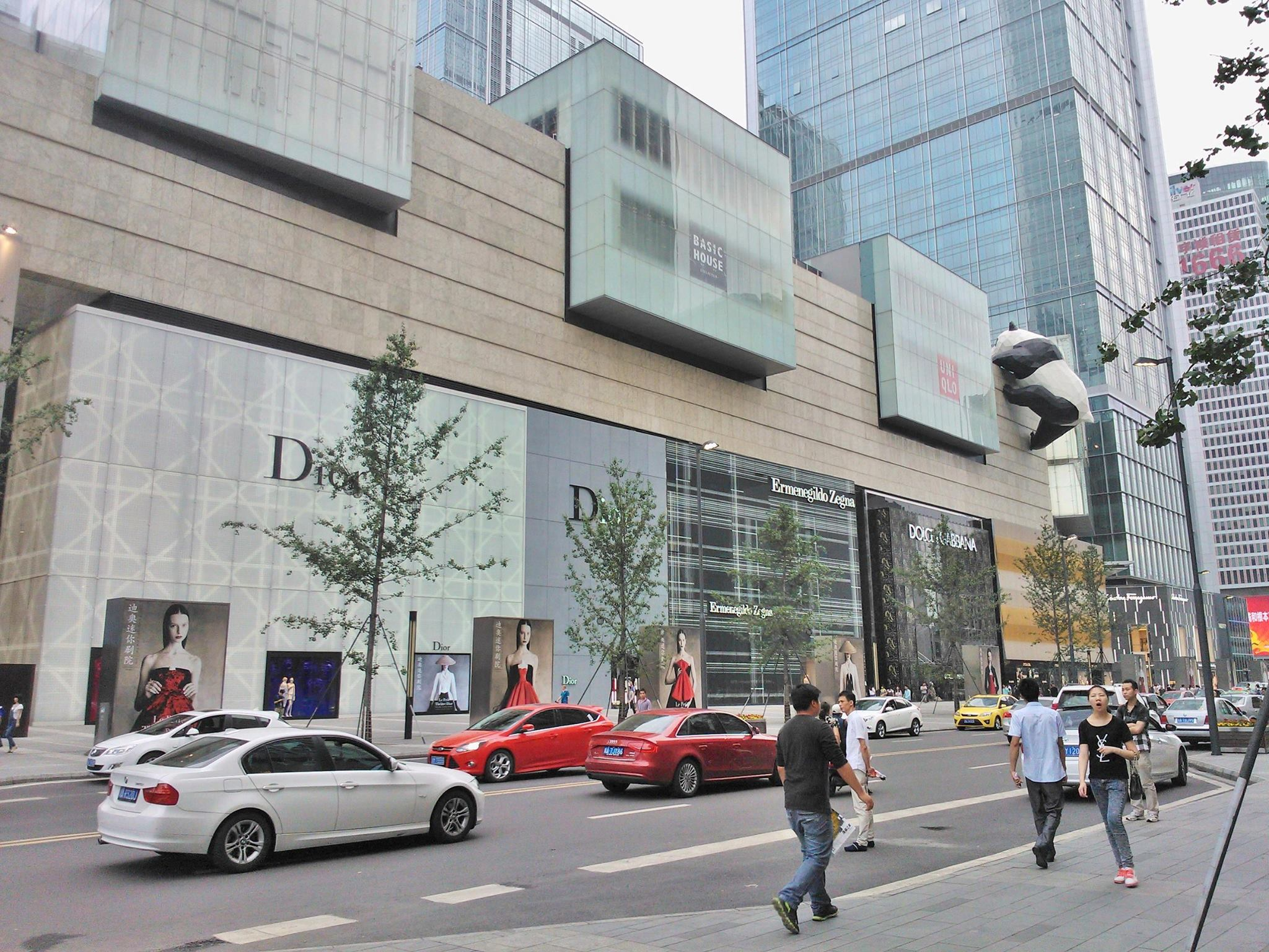 International Finance Square (IFS), junction of Hong Xing Road and Dacisi Road, Chengdu